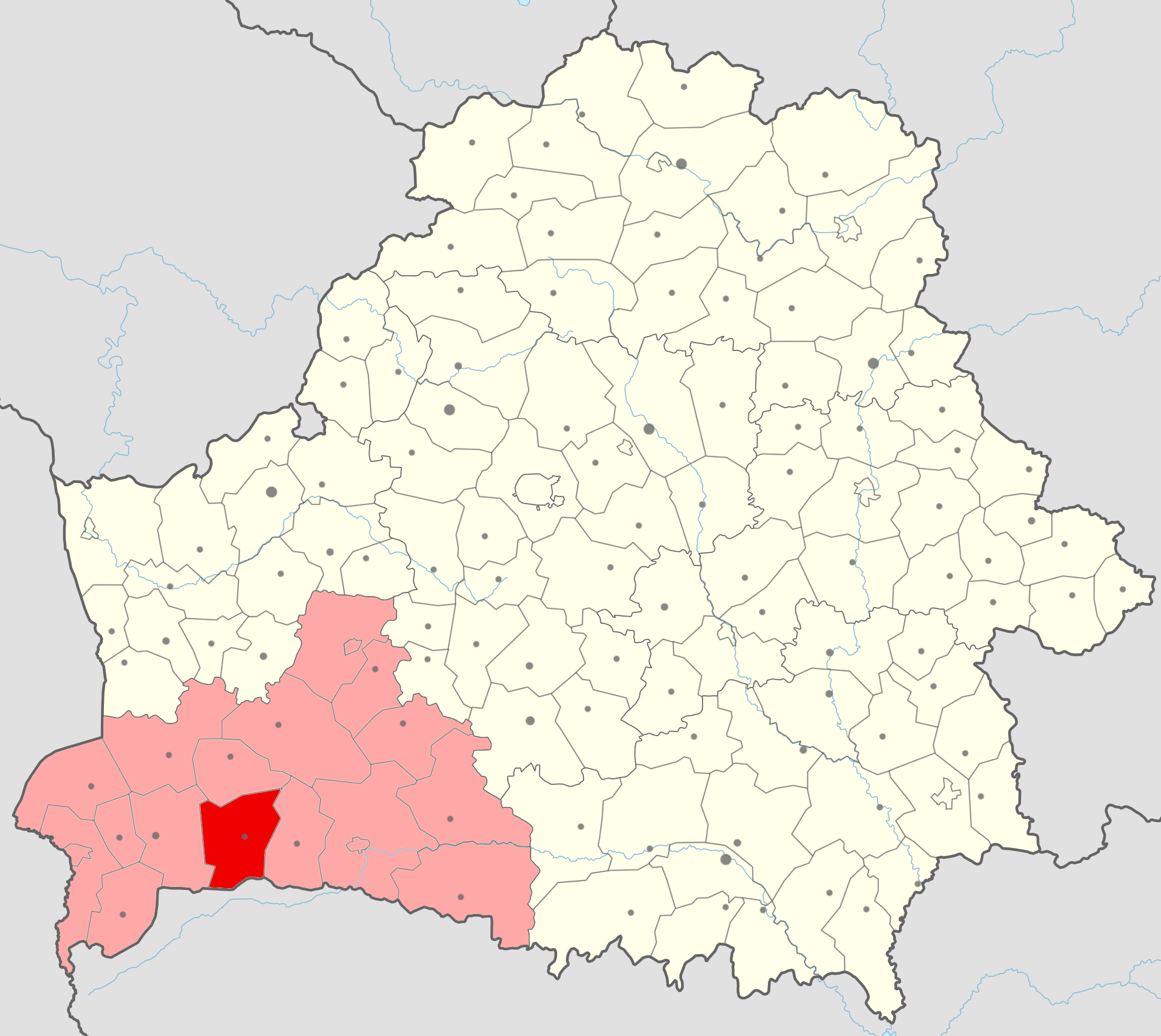 Location of Drahičynski rajon (red) in Bresckaja voblasć (light red) in Belarus.